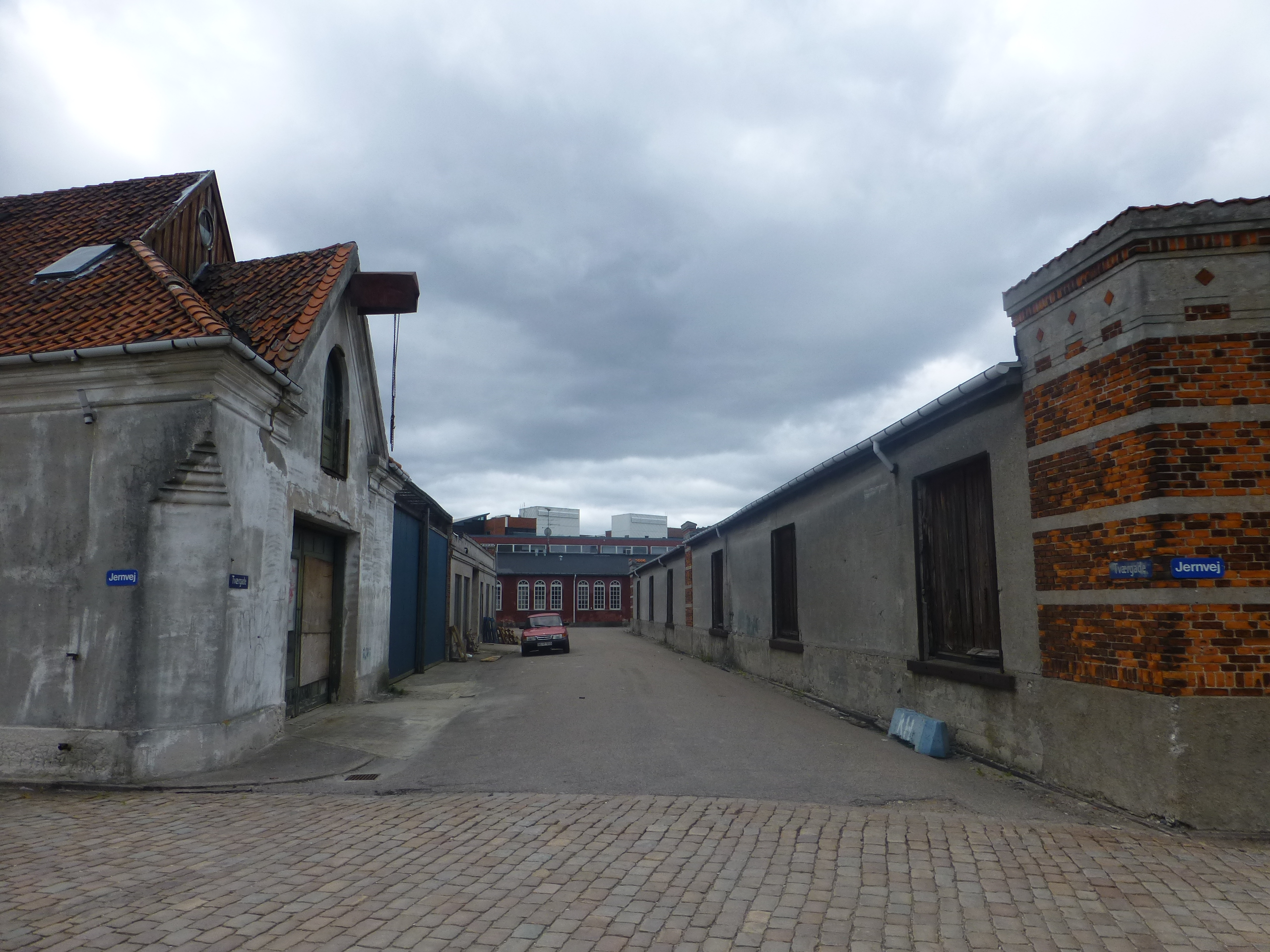 The street Tværgade in Nordhavn in Copenhagen. In 2014 the name was changed to Kielgade.